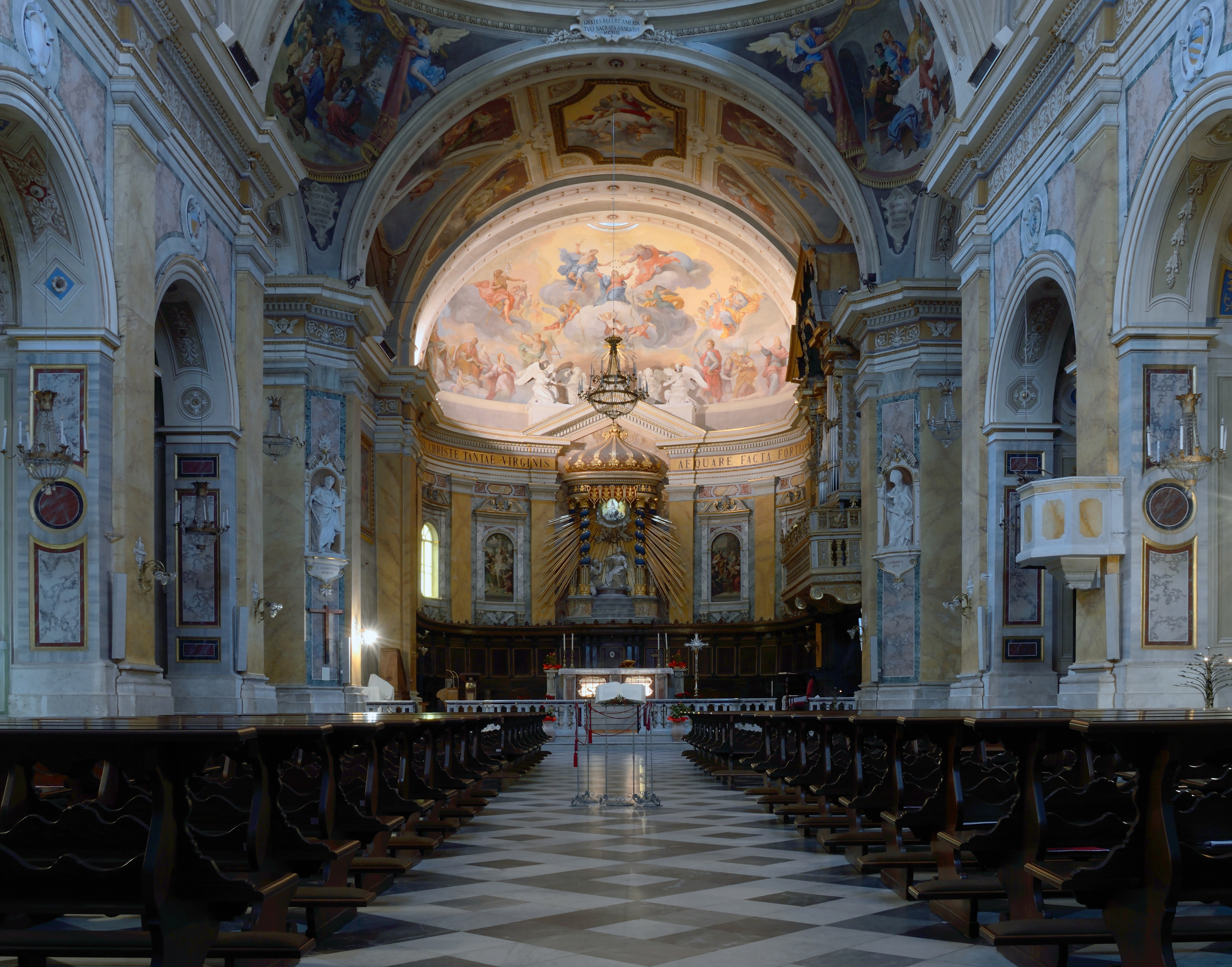 Inside the Cathedral of Amelia